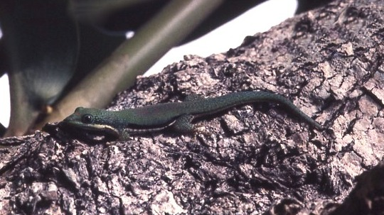 Lined Day Gekko (Phelsuma lineata), Antananarivo, Madagascar